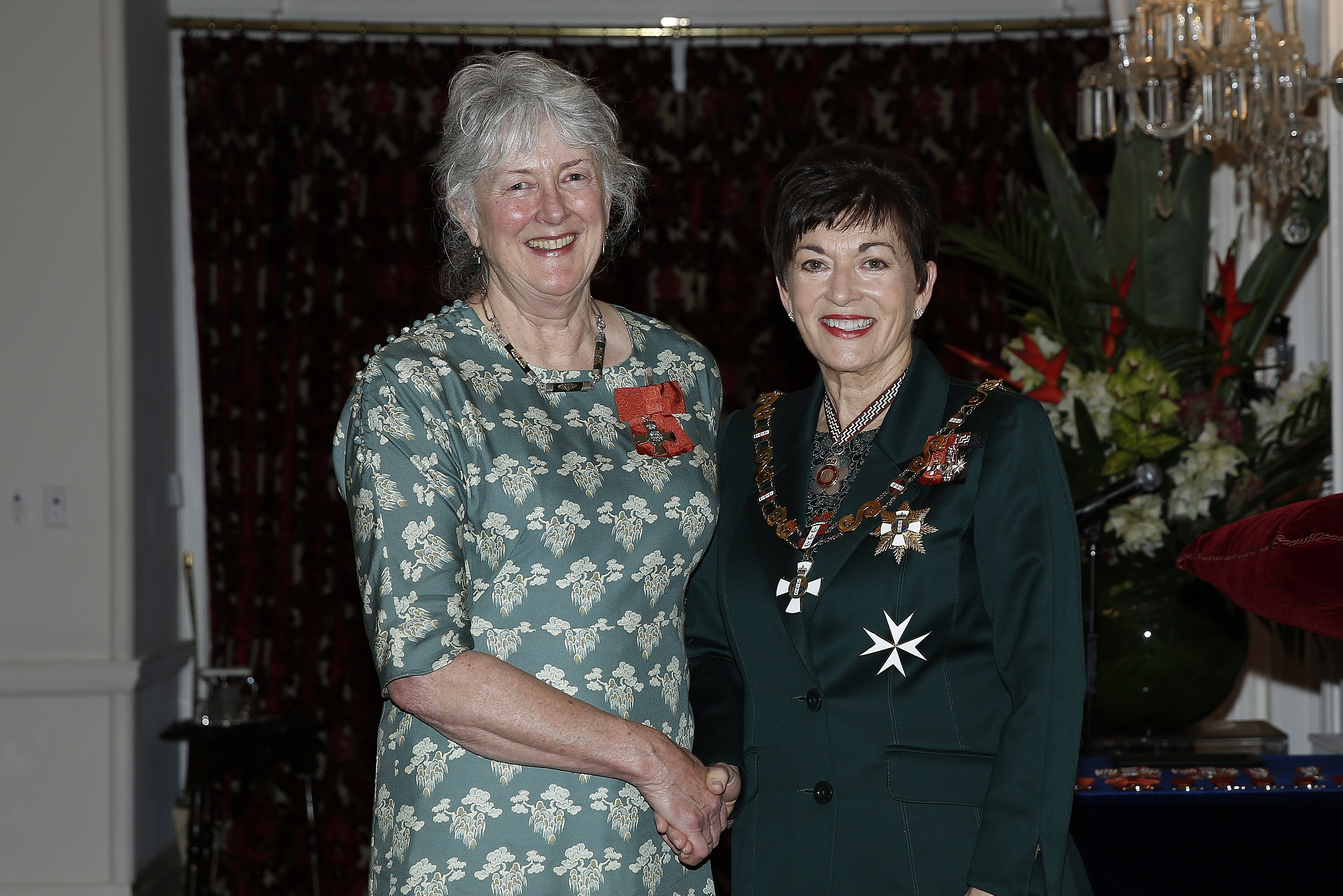 Barbara Brookes (left), after her investiture as MNZM, for services to historical research and women, by the governor-general, Dame Patsy Reddy, on 14 May 2018